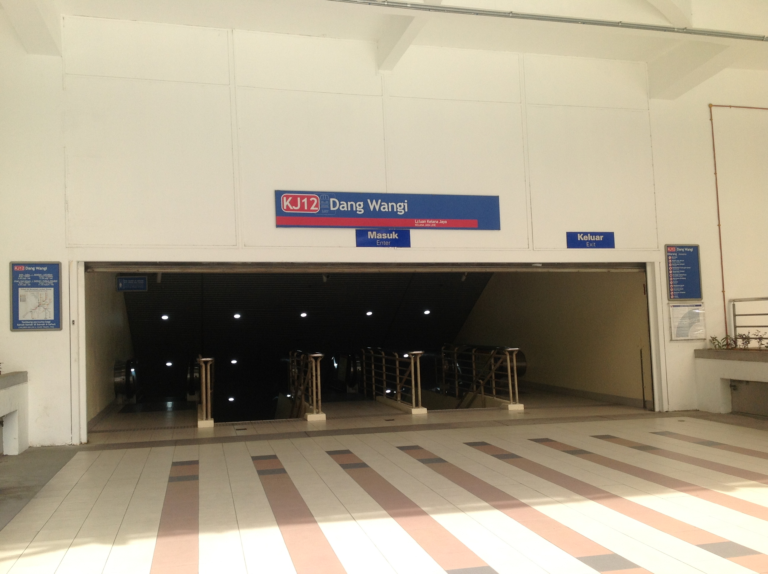 Dang Wangi LRT train station in Kuala Lumpur